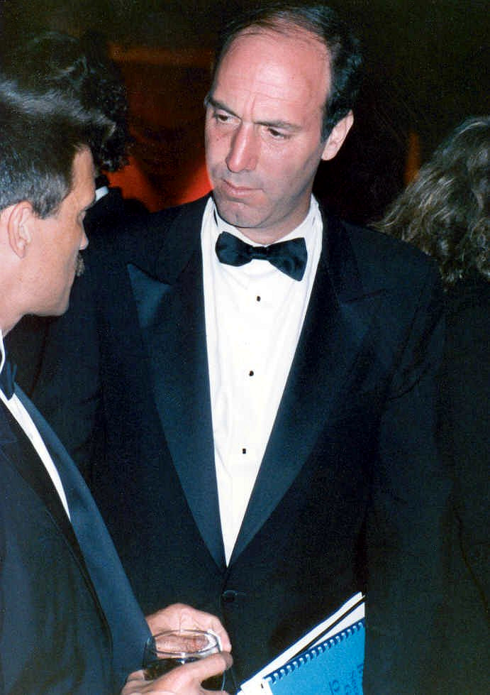 Movie critic Gene Siskel at the Governor's Ball party after the 1989 Academy Awards, March 29, 1989